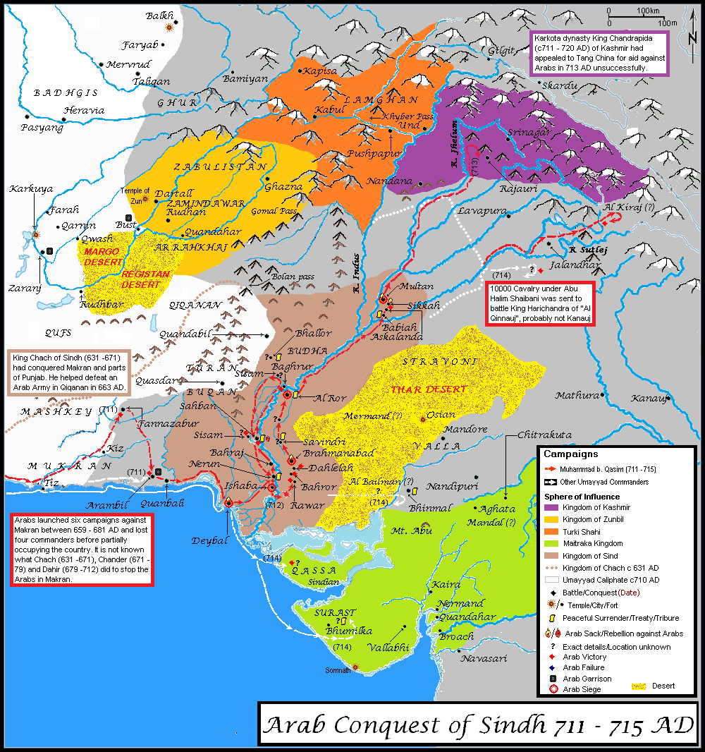 Muhammad bin Qasim's Campaign in Sindh. The map was made using wikimedia commons template of Pakistan and Afganistan and public domain information from "The Chachnama" and "Kitab Futuh Al Buldun. Not to exact scale and not all features are shown.